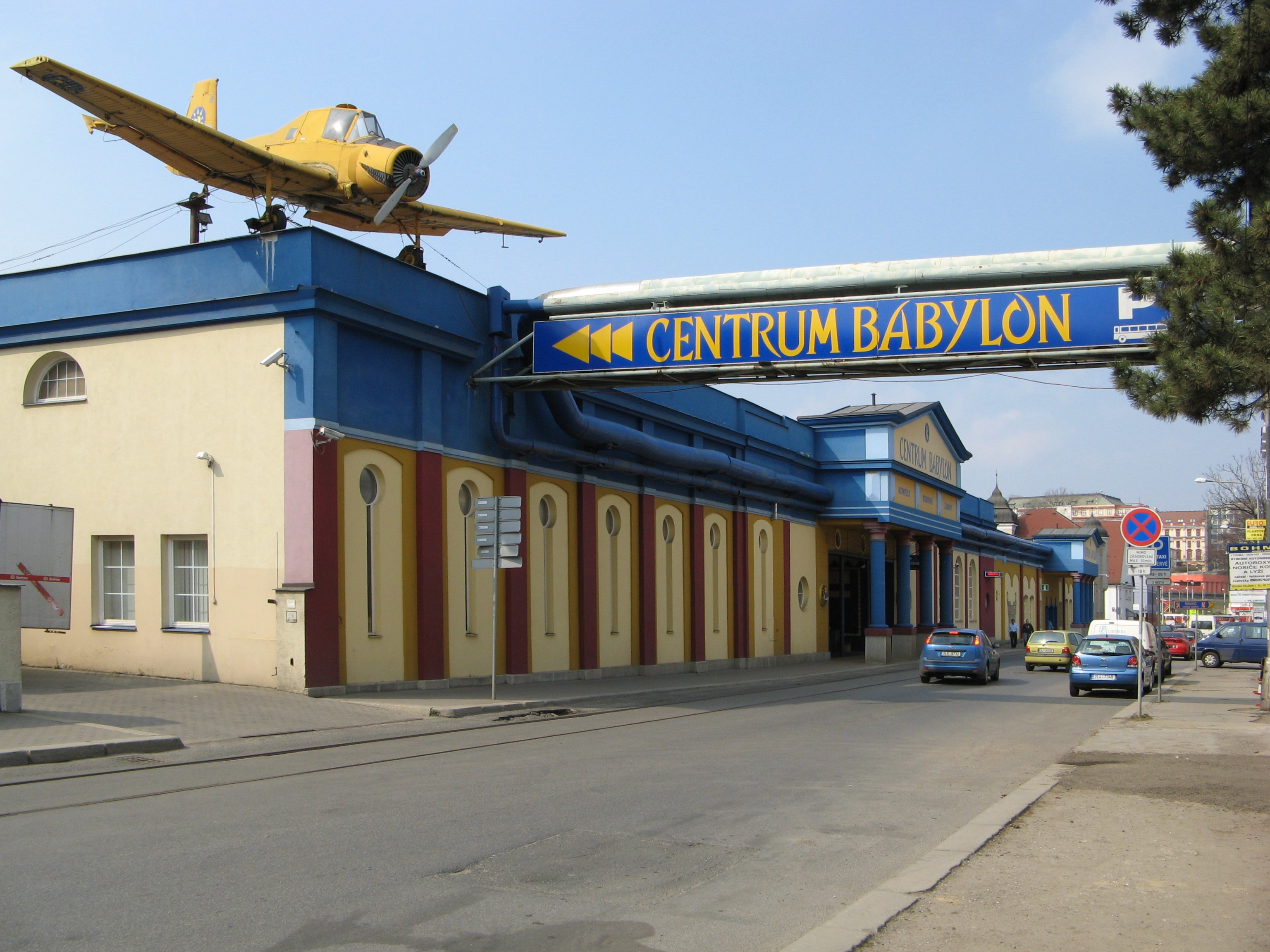 Entertainment complex Centrum Babylon in Liberec.